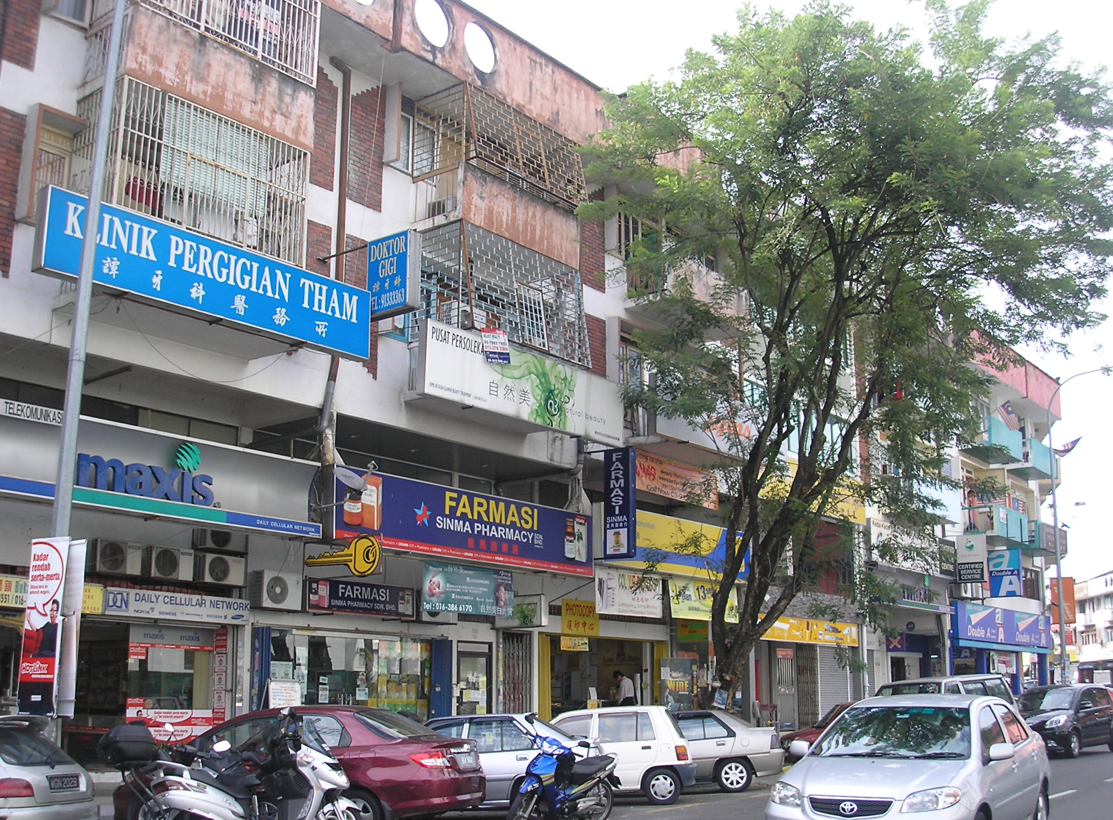 A row of four-storey shophouses (presumably built during the 1970s), in Cheras, Kuala Lumpur.